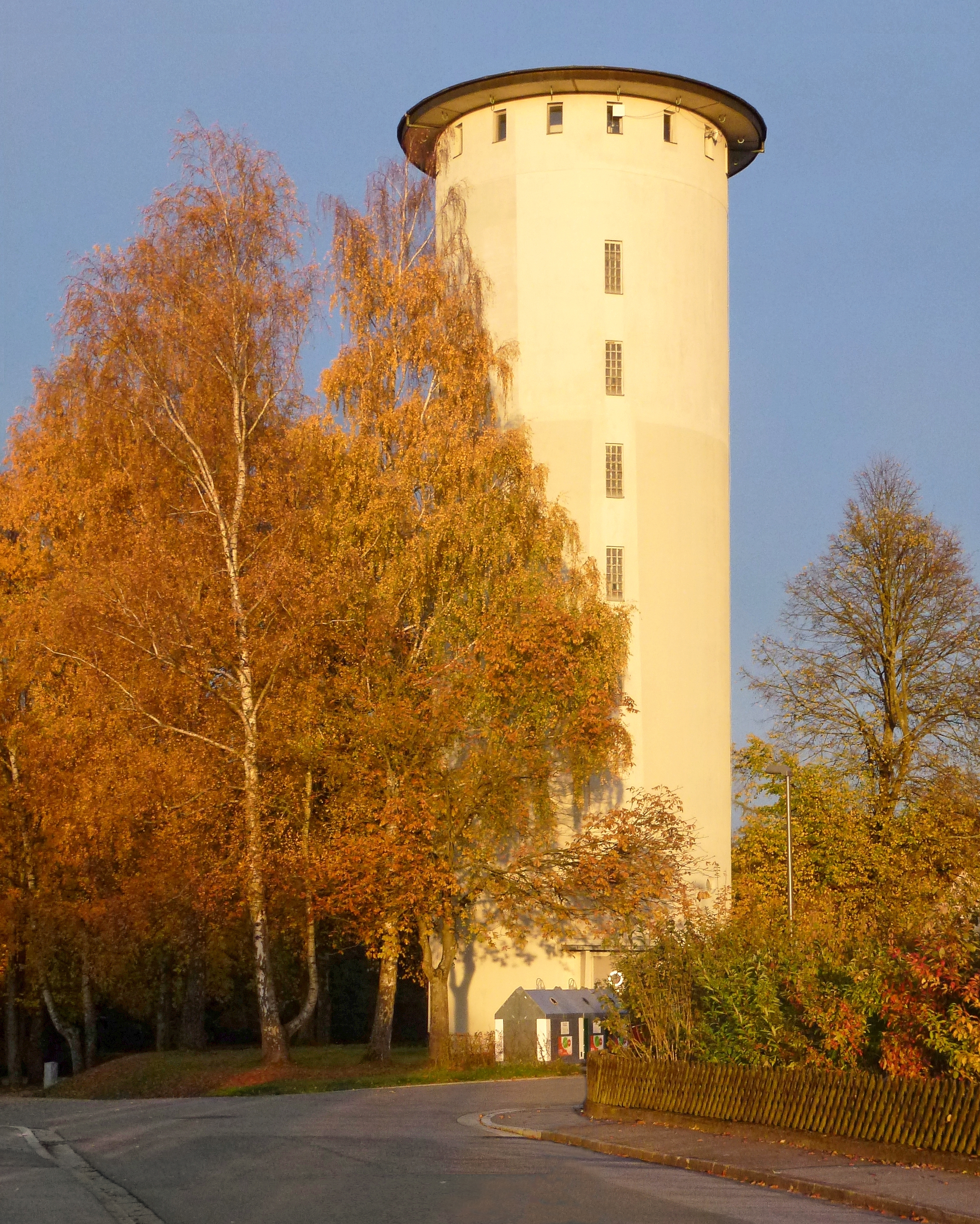 Weidach - autumn mood in the evening at the water tower